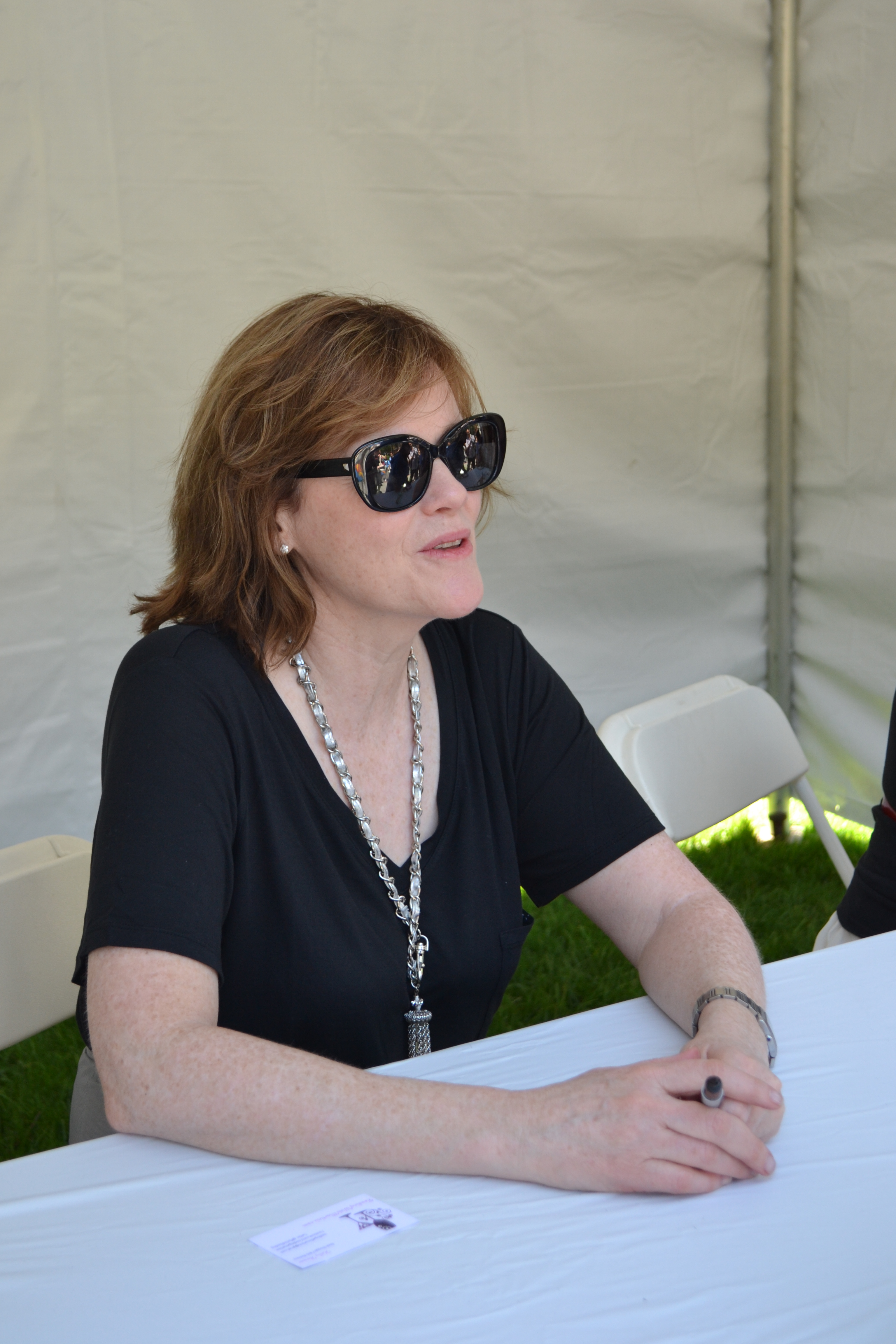 (Kristin Yinger/Neon Tommy)